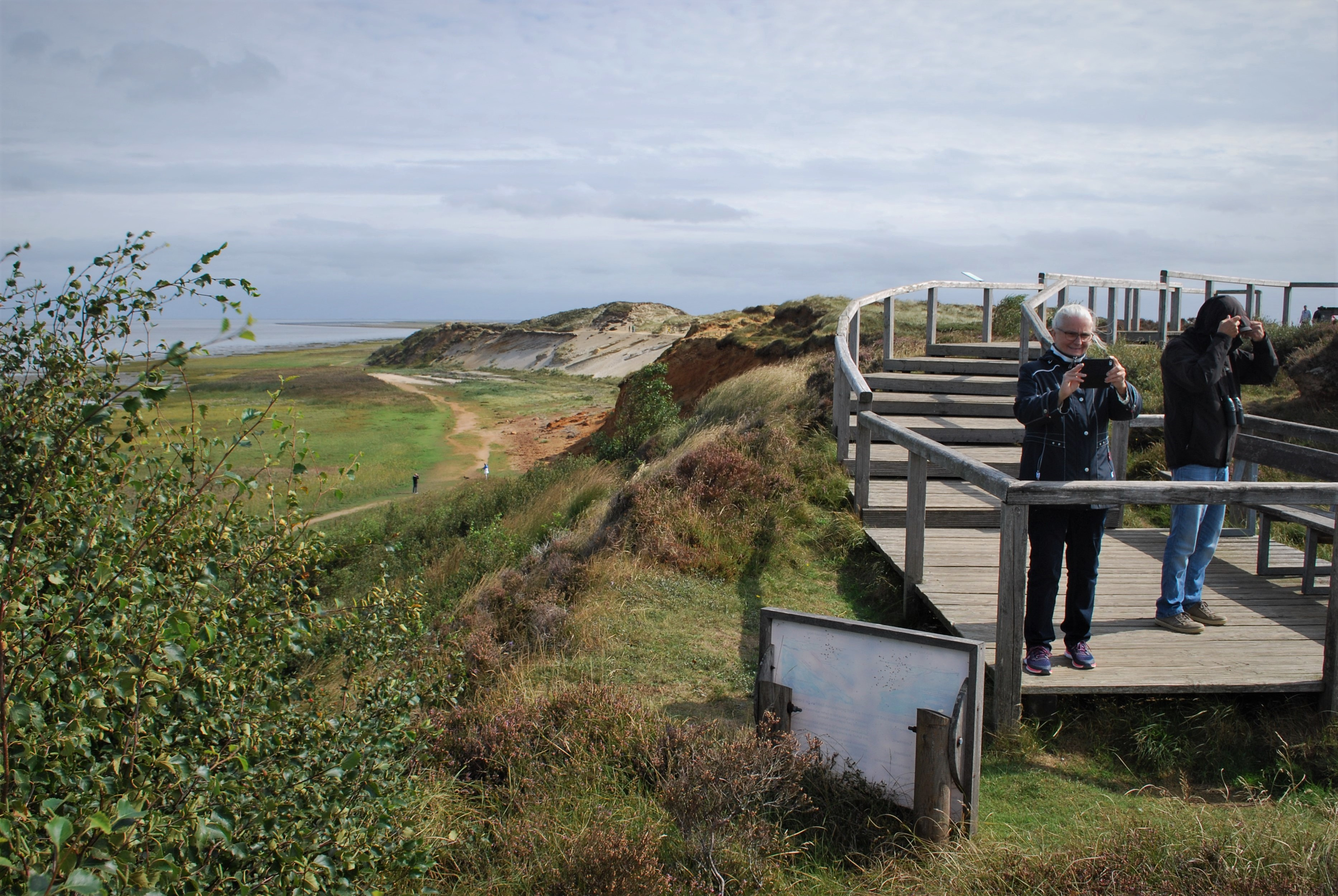 Morsum-Kliff, Sylt, Germany